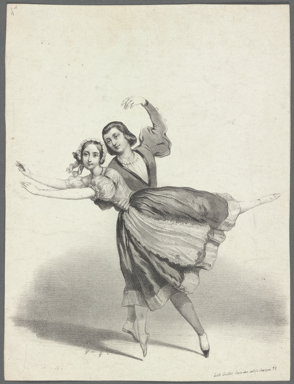 This print probably depicts Nathalie Fitzjames and Auguste Mabille, the first performers of the peasant pas de deux from Giselle (choreography, Jean Coralli and Jules Perrot), which they danced at the Paris Opéra in 1841. Although the rest of the ballet's score was composed by Adolphe Adam, this pas de deux was set to interpolated music by Friedrich Burgmüller. Fitzjames and Mabille were both principal dancers of the Paris Opéra at the time.